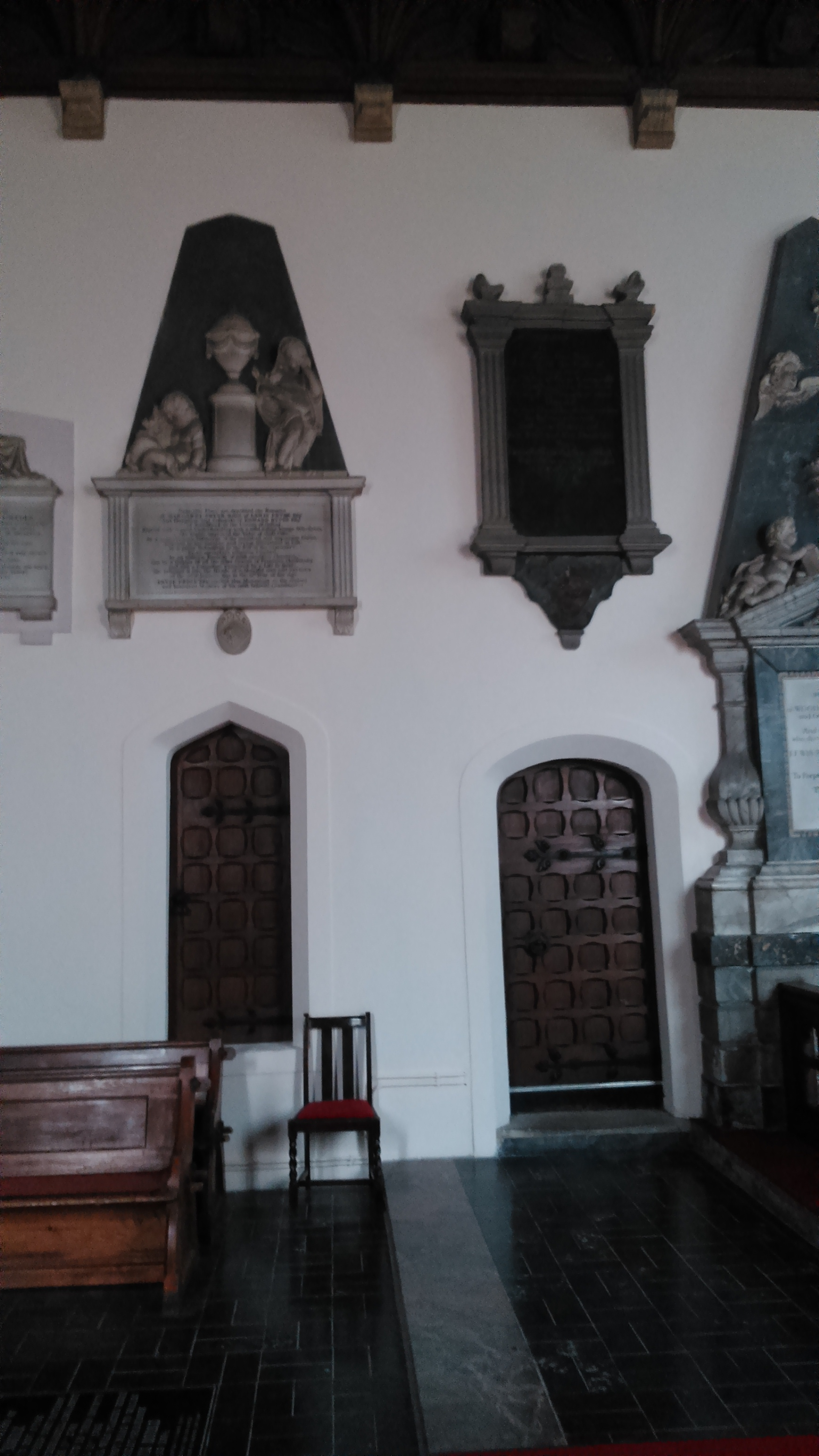 Monuments in the chacel, and entrance to stair leading to the rood loft and the door leading to the vestries